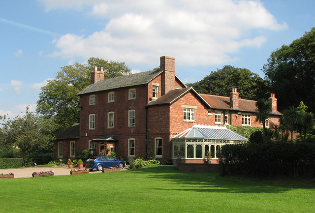 The Manners Arms, Knipton, Leicestershire